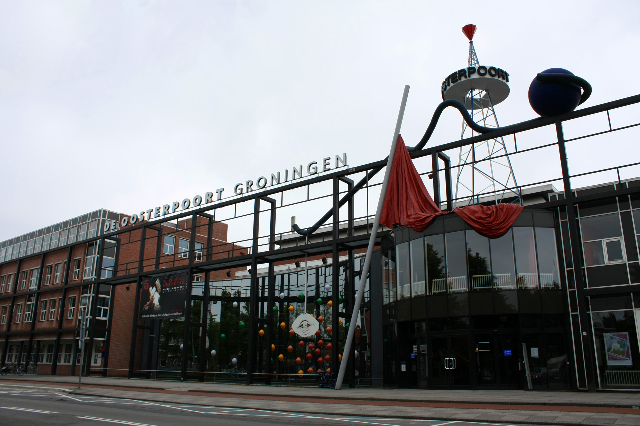 Front of De Oosterpoort in Groningen, the Netherlands. Art by Alexander Schabracq